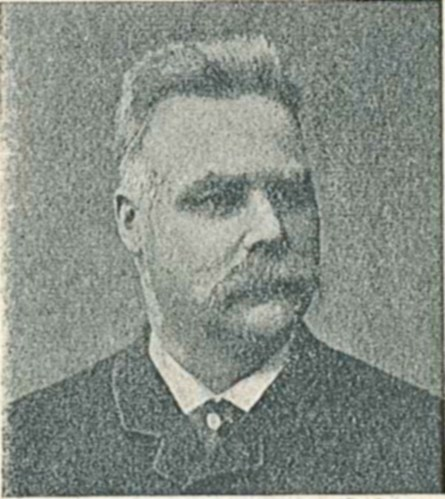 Swedish politician Knut Alfred Kihlberg. From page 7 of an album featuring portraits of all the members of the second chamber of the Swedish parliament (Sveriges riksdag) elected in 1897.